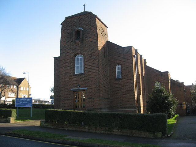 St John the Baptist's parish church, Stoneleigh Park Road, Stoneleigh, Epsom, Surrey, seen from the east